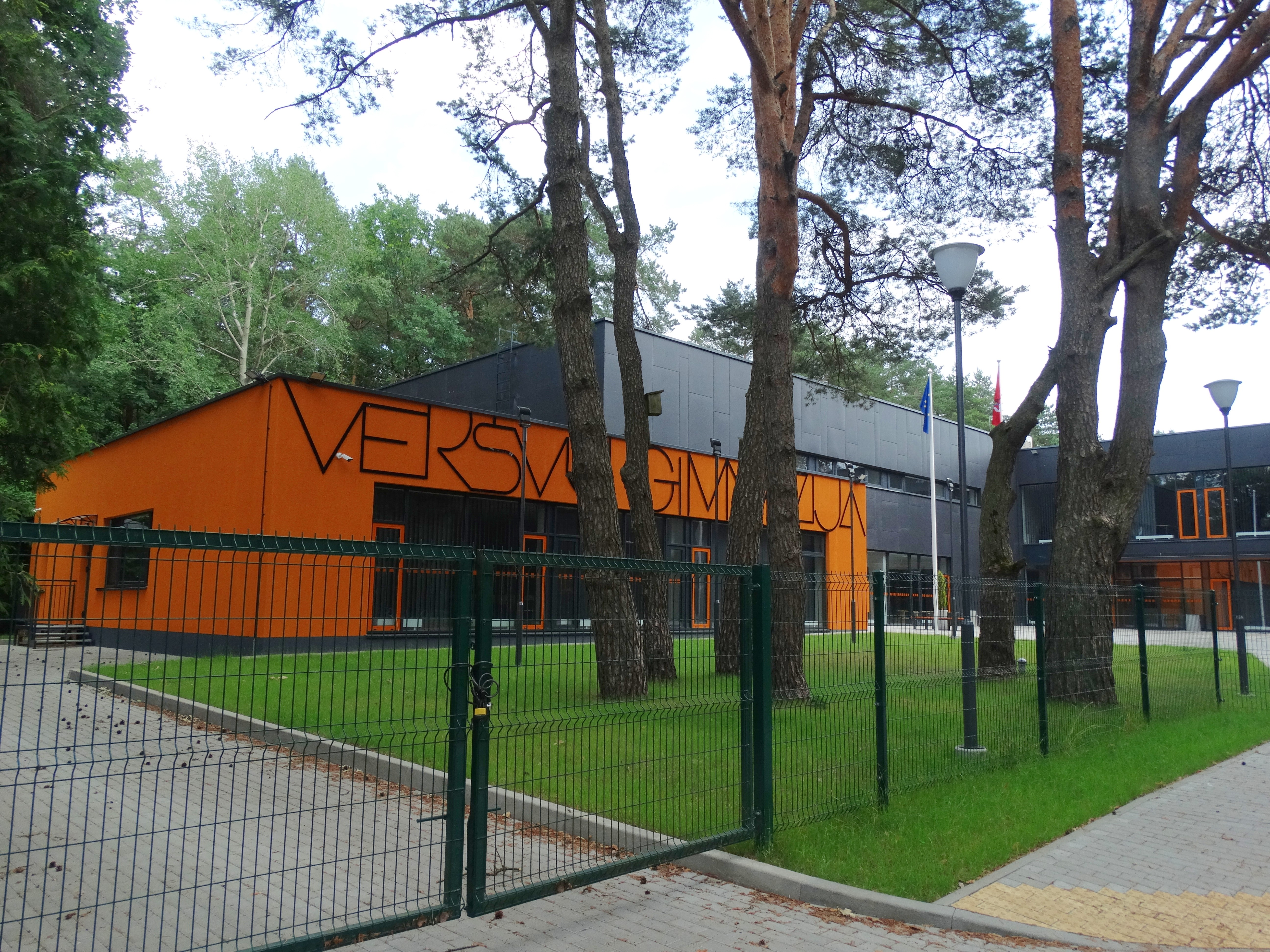 Romainiai, primary school, Kaunas district, Lithuania